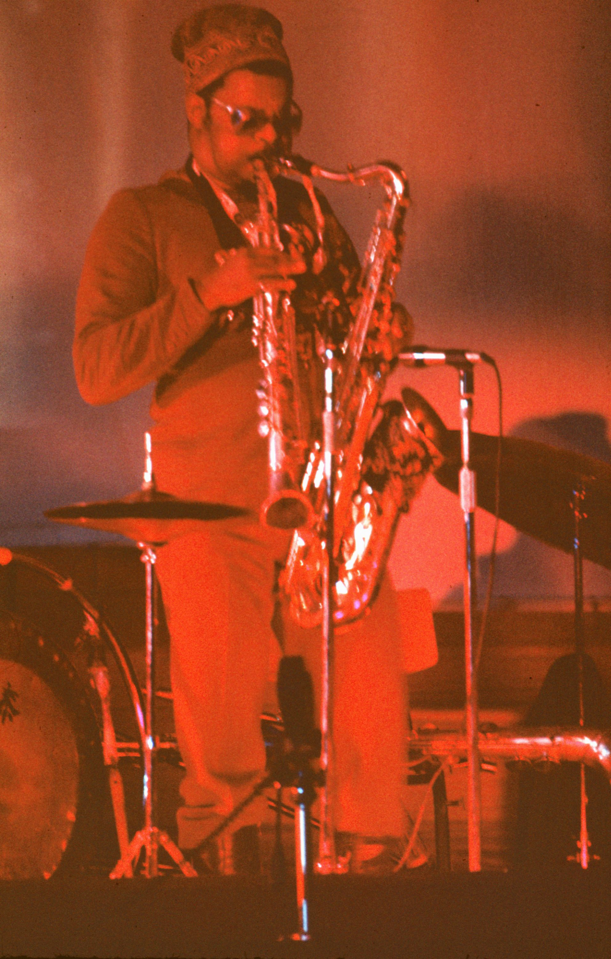 Roland Kirk playing at Lanchester Polytechnic in Coventry UK, January 1972